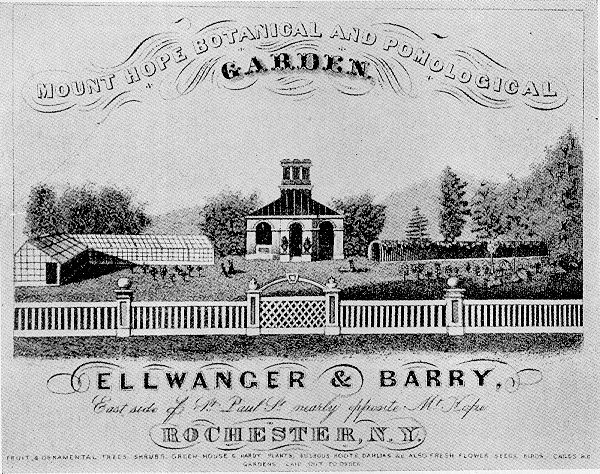 An illustration showing George Ellwanger and Patrick Barry's Nursery. The caption from the 1940 source (see below) says: "The Mount Hope Nurseries—1855. This quaint representation of the greenhouses and office of Ellwanger and Barry has been reproduced from the Ellwanger & Barry, Descriptive Catalogue of Fruits (Rochester, 1860)."